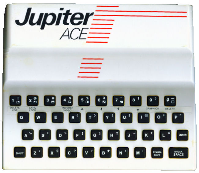 Jupiter ACE Forth computer made by Jupiter Cantab.